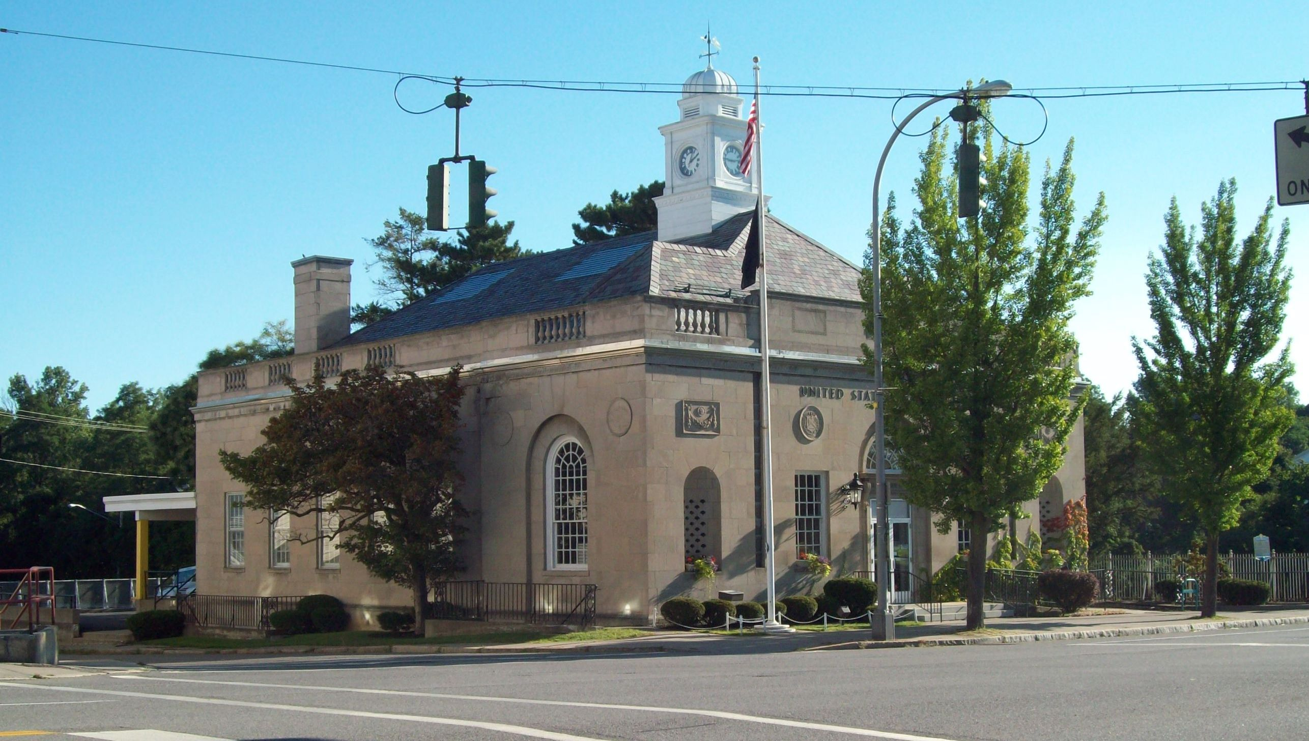 U.S. Post Office, Le Roy NY, August 2010